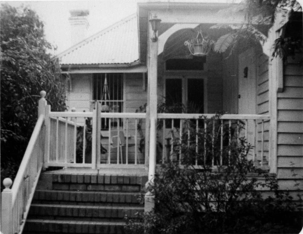 Verandah scene at Ashley, Indooroopilly, Brisbane. Close up view of verandah at Ashley, 45 Riverview Terrace, showing timber railings and brick entry steps.